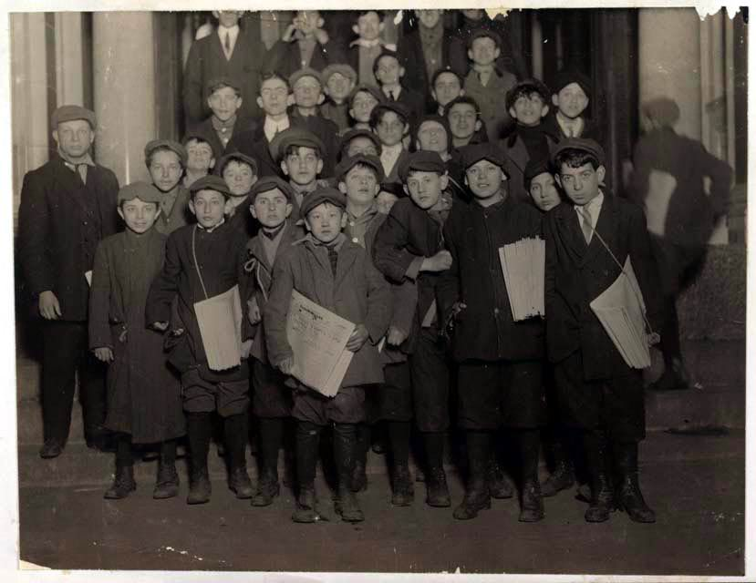 This photograph of newsboys Waiting for the "Forwards," was taken by Lewis Hine at 1:15 a.m. on the steps of the building where the Jewish daily the Forward was produced on New York's Lower East Side. According to Hine, the group included a number of boys as young as ten years-old. The newsboy in the first row is holding copies of Wahrheit [Truth], a Yiddish daily newspaper that stressed Jewish national aspirations.